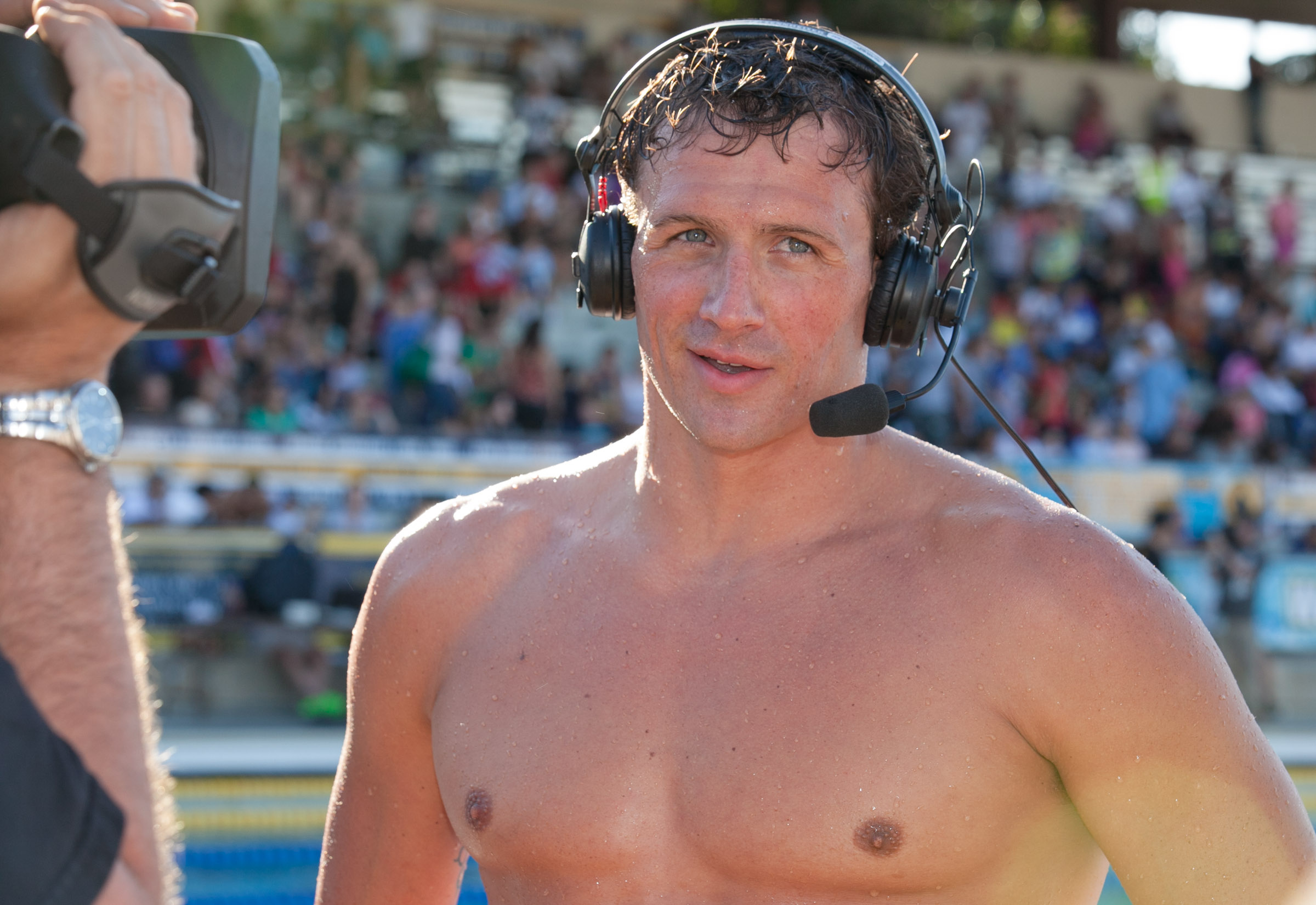 At the 2013 Santa Clara Grand Prix. Photo by JD Lasica.